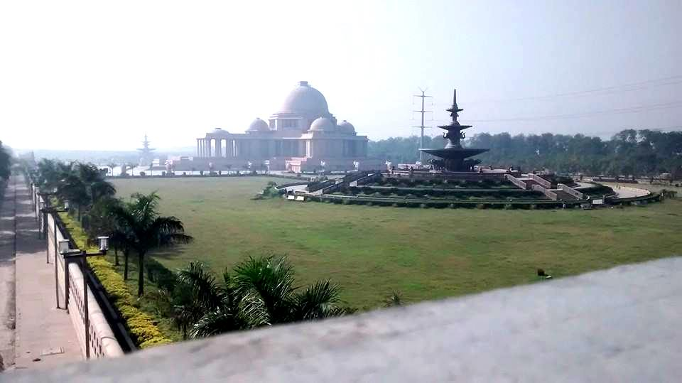 Rashtriya Dalit Prerna Sthal and Green Garden